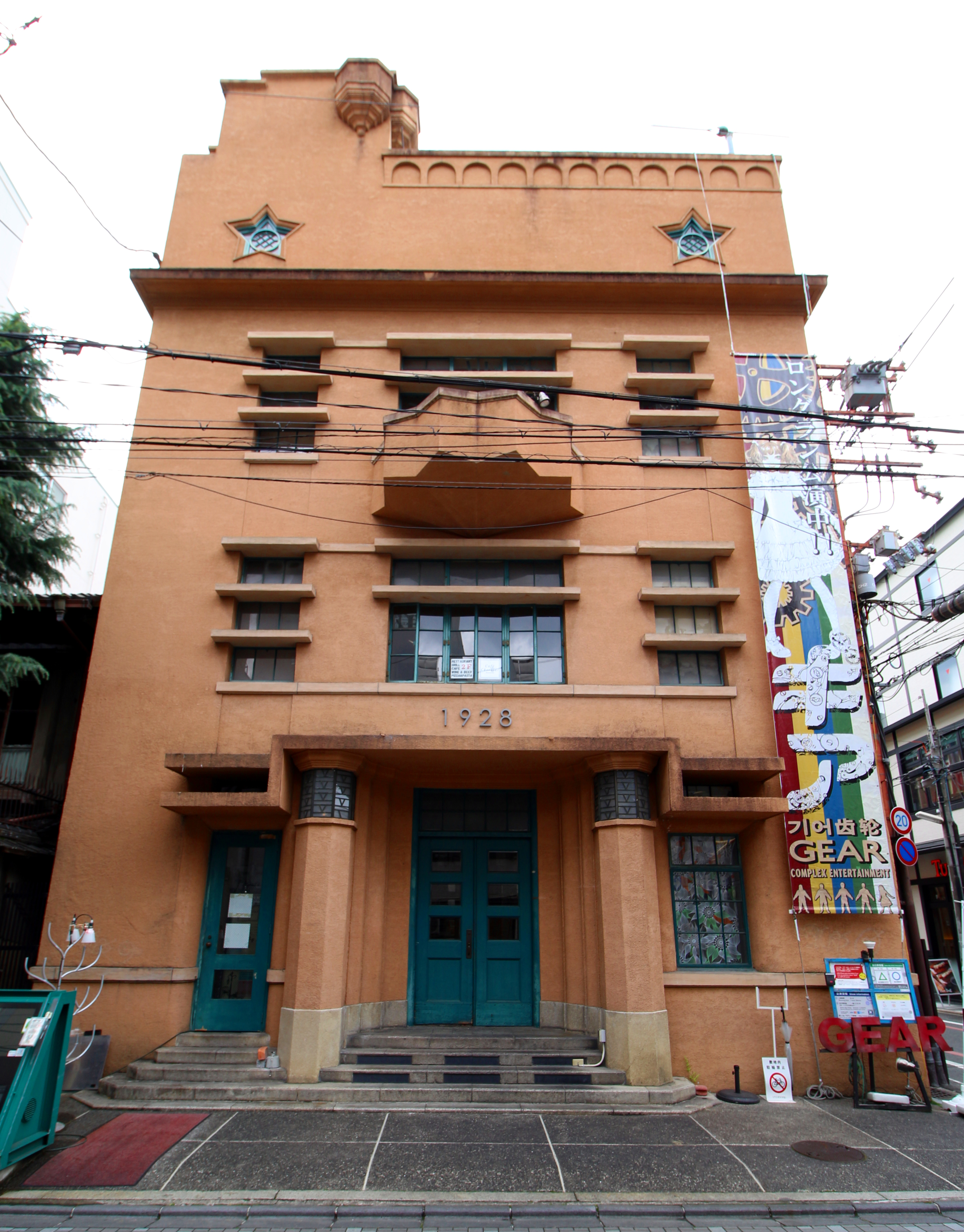 1928 Building in Kyoto, Japan.